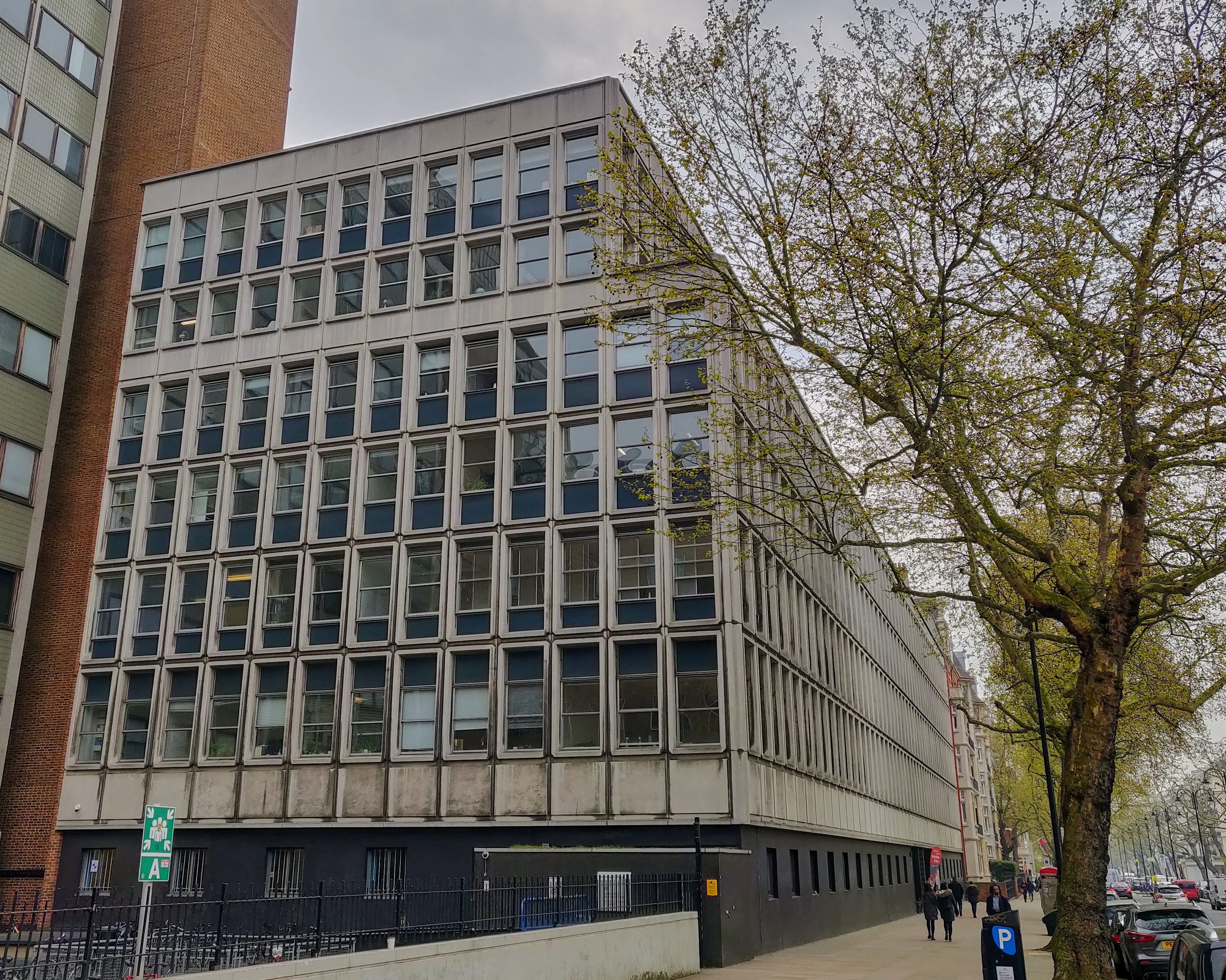 The Huxley Building is home to the departments of computing and mathematics at Imperial College London